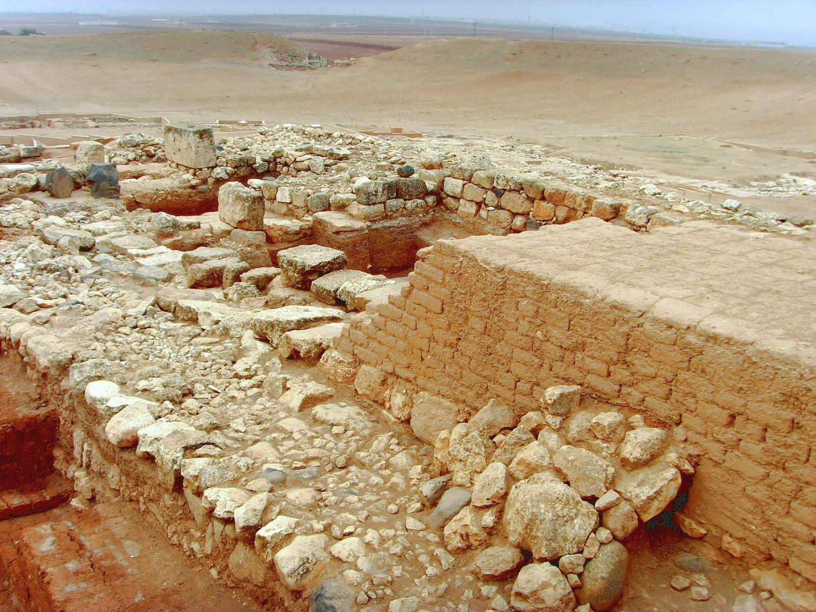 Ebla/Syria